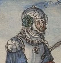 Dedo IV of Wettin